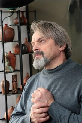 sculptor Józef Marczyński